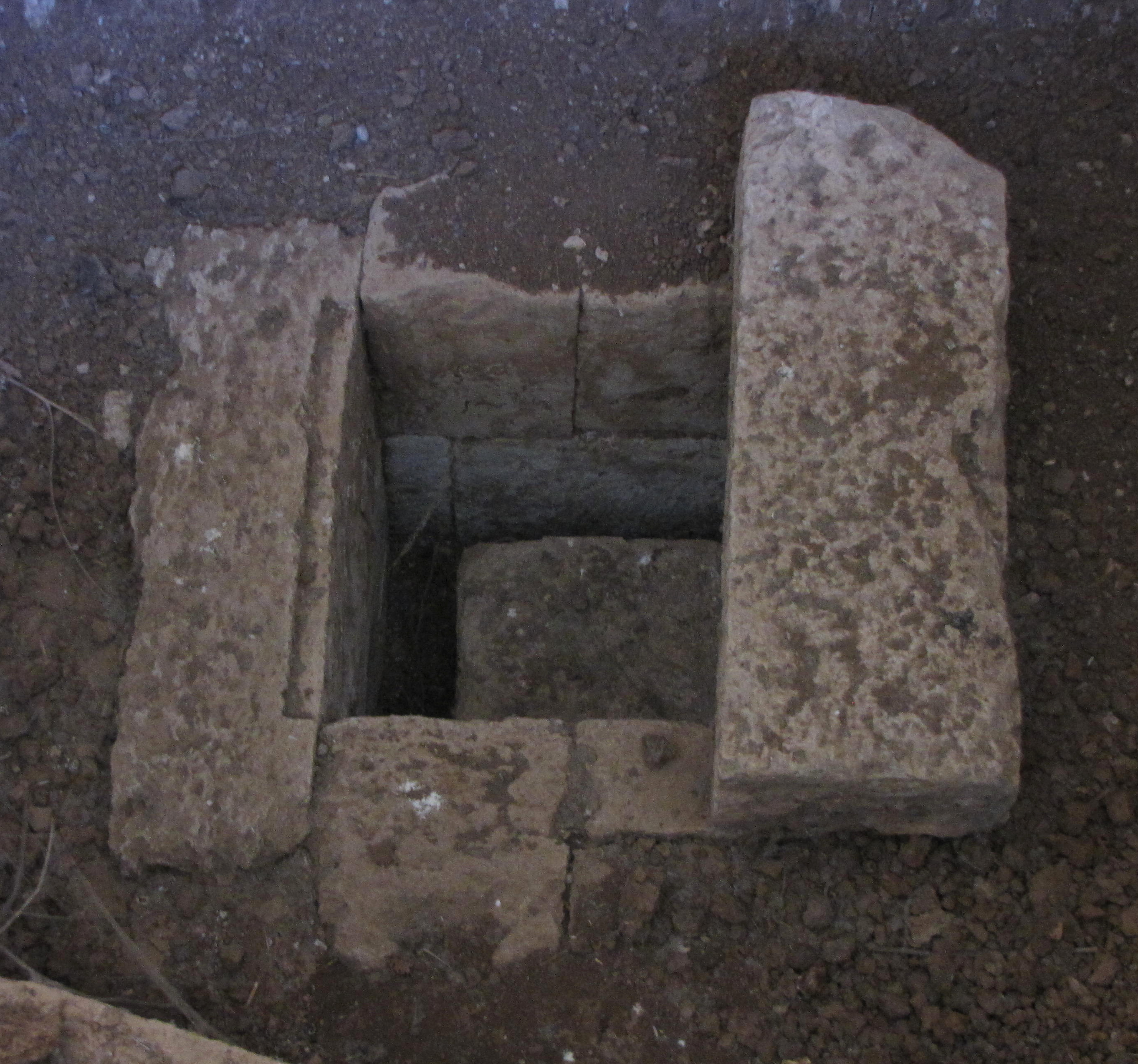 Pydna, square tomb